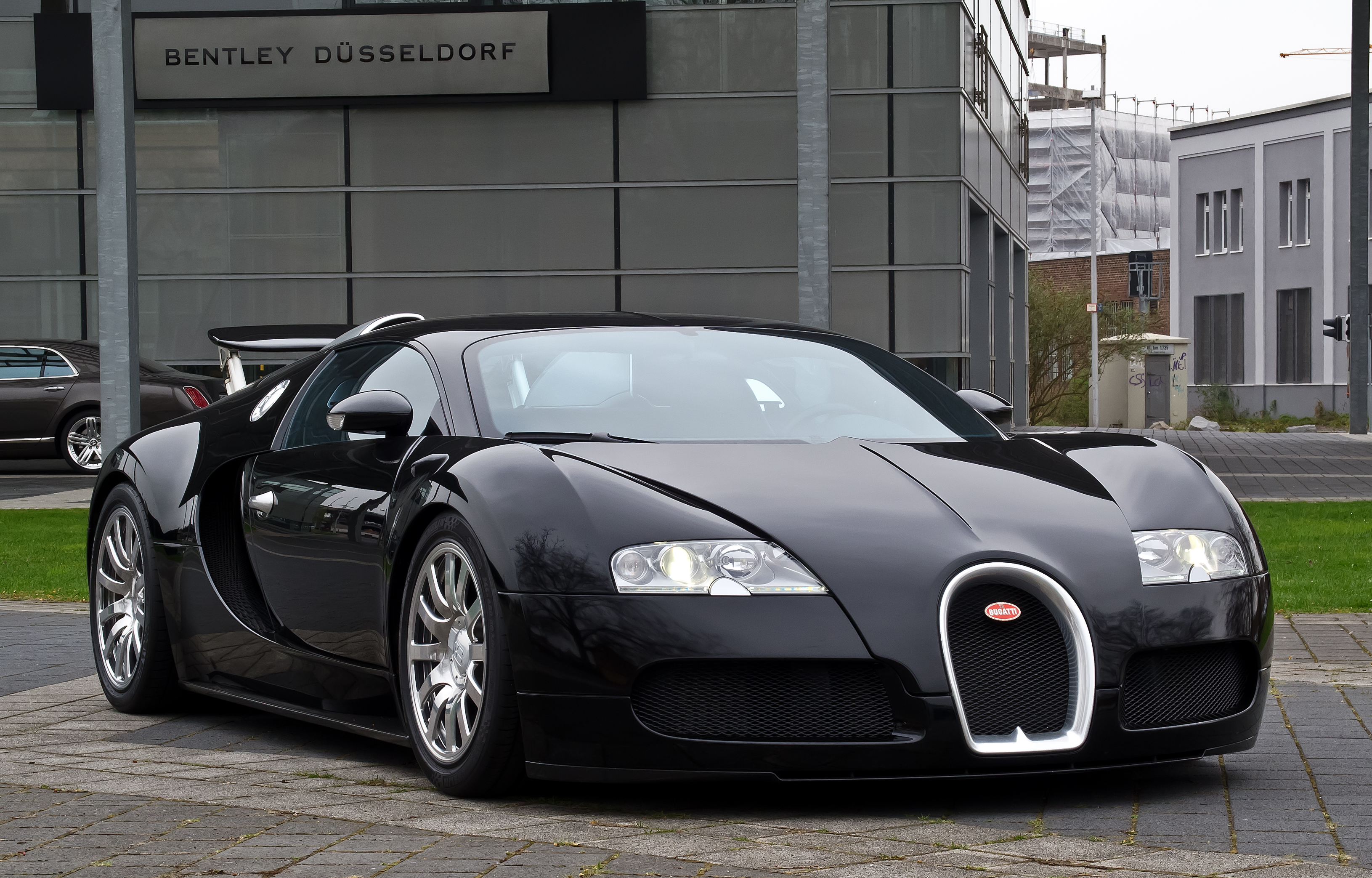 A Bugatti Veyron 16.4 Grand Sport on display outside Bentley Düsseldorf located in Düsseldorf, Germany